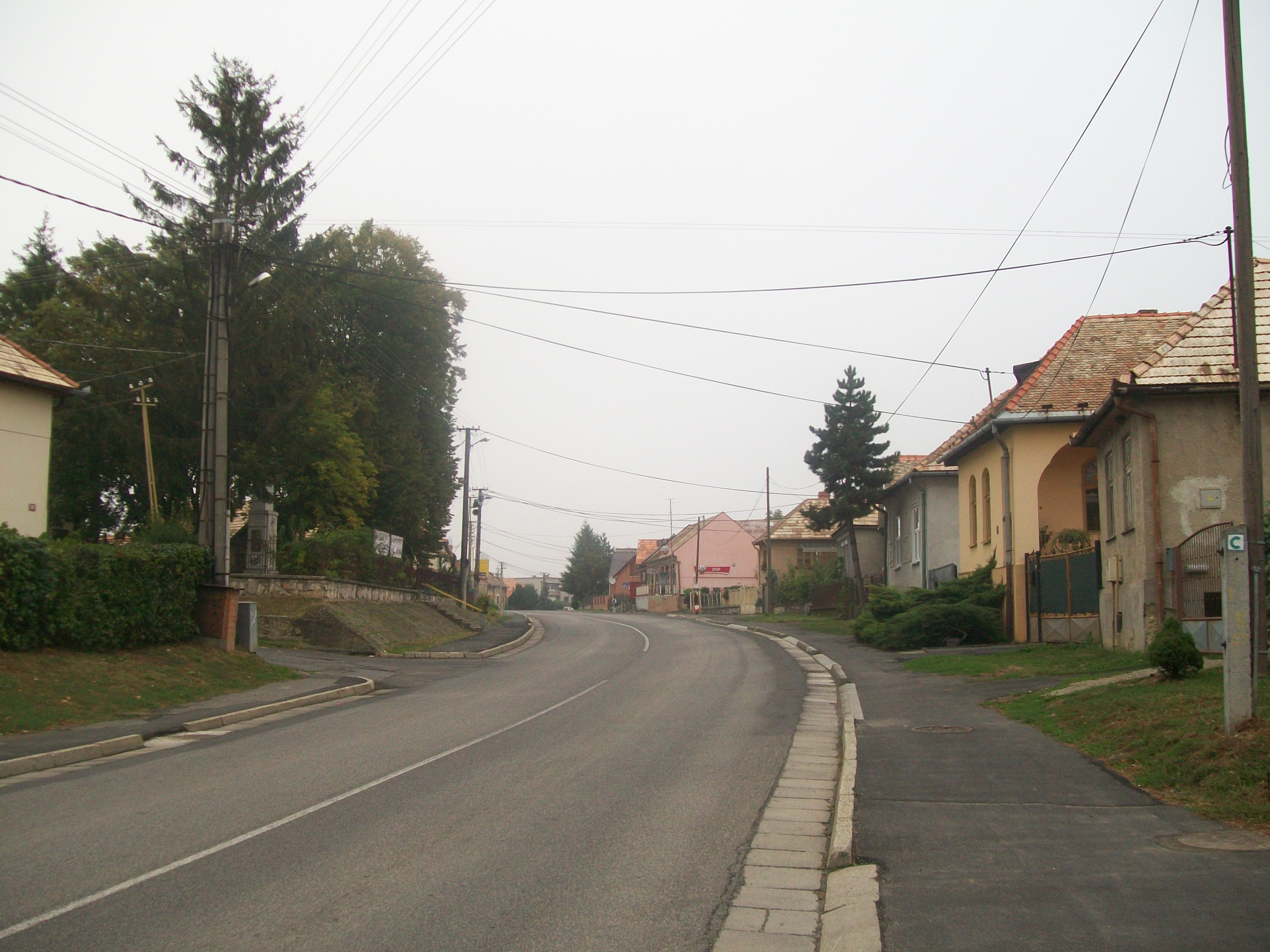 Street of the village Panické DravceSlovenčina: Ulica obce Panické Dravce